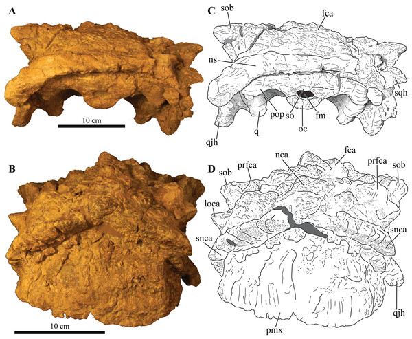 Photographs of the skull of Akainacephalus johnsoni in (A), posterior; and (B), anterior views. Line drawings in (C), posterior; and (D), anterior views highlight major anatomical features. Study sites: fm, foramen magnum; fca, frontal caputegulae; loca, loreal caputegulum; naca; nasal caputegulae; ns, nuchal shelf; oc, occipital condyle; pmx, premaxilla; pop, paroccipital process; prfca, prefrontal caputegulum; q, quadrate; qjh, quadratojugal horn; snca, supranarial caputegulum; so, supraoccipital; sob, supraorbital boss; sqh, squamosal horn.